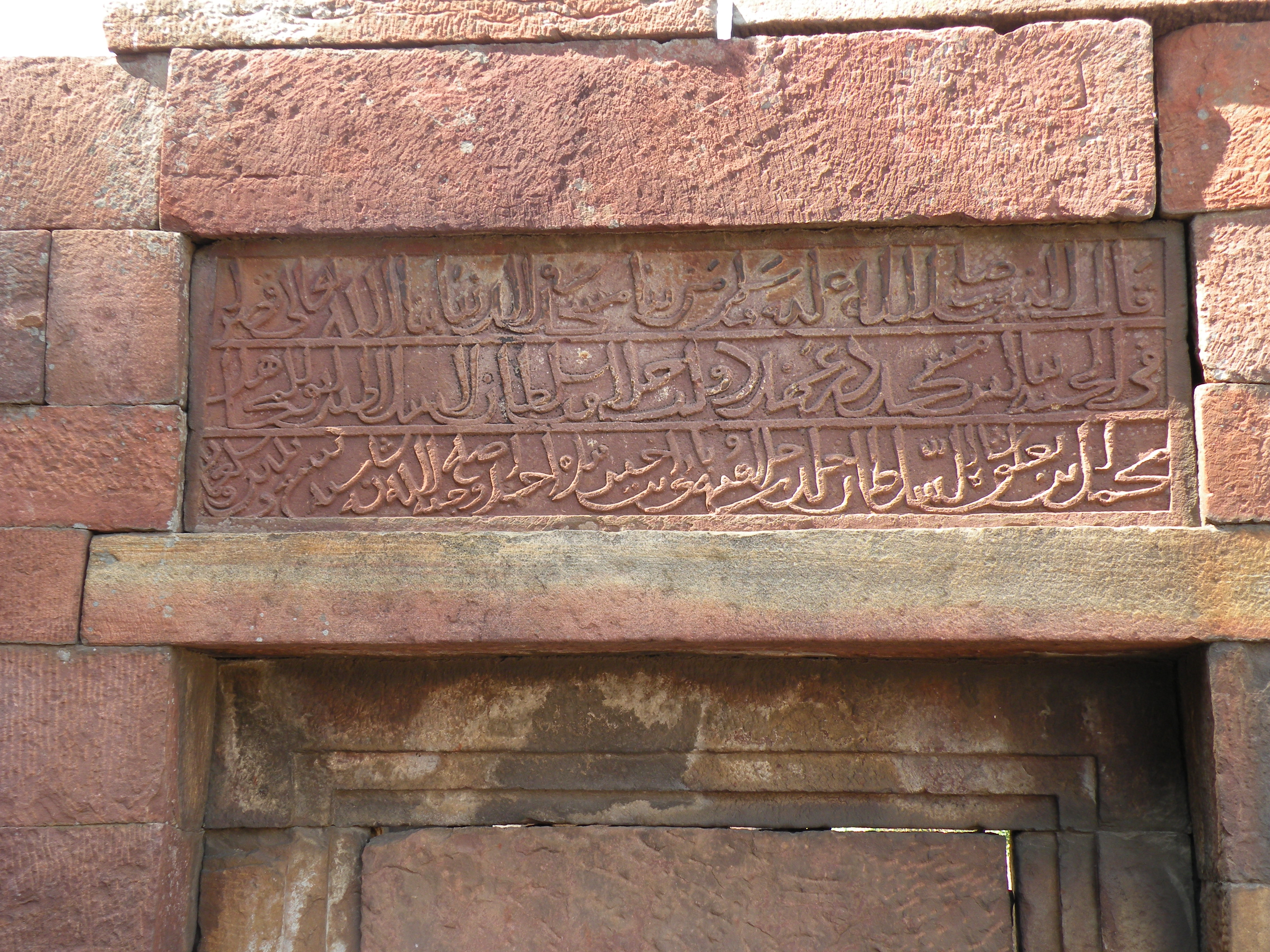 Udaipur (Dist. Vidisha). One of a pair of mosque inscriptions from the time of Muhammad ibn Tughluq, dated 737 and 739 (i.e. CE 1336-37 and CE 1338-39).